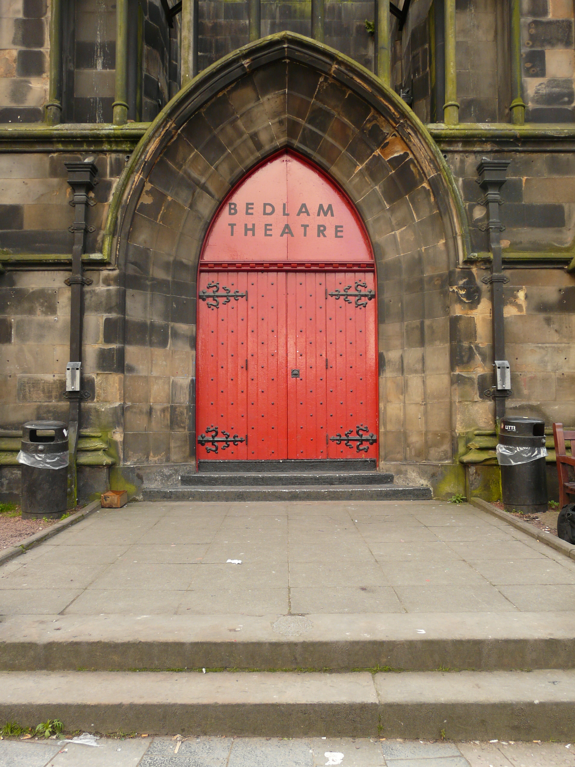 The main door of the Bedlam Theatre, Edinburgh.